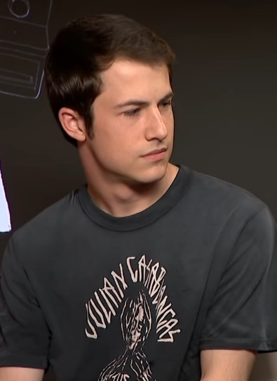 American actor Dylan Minnette